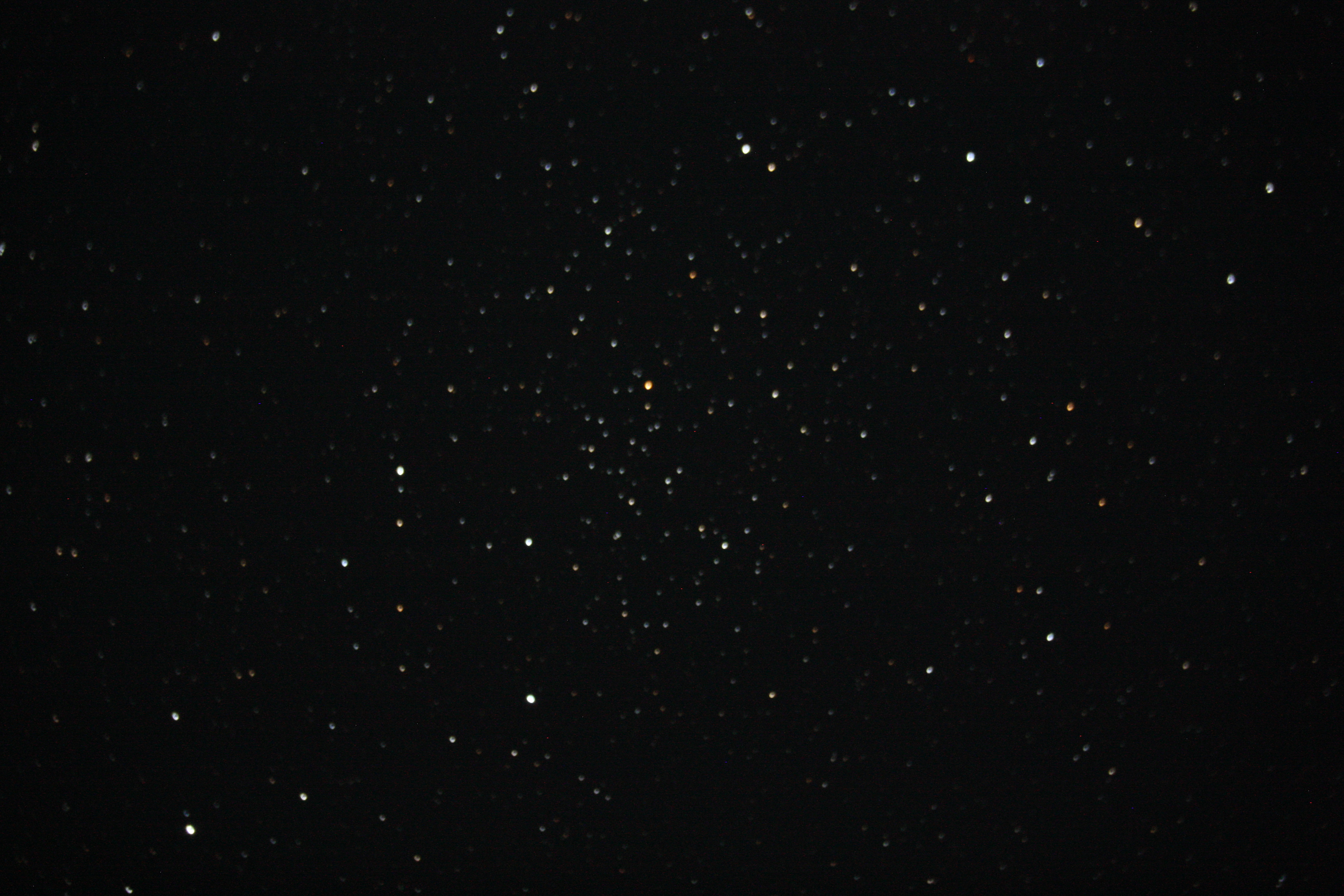 Open Cluster NGC 6940, photographed through a Celestron C 9 1/4 Schmidt-Cassegrain.